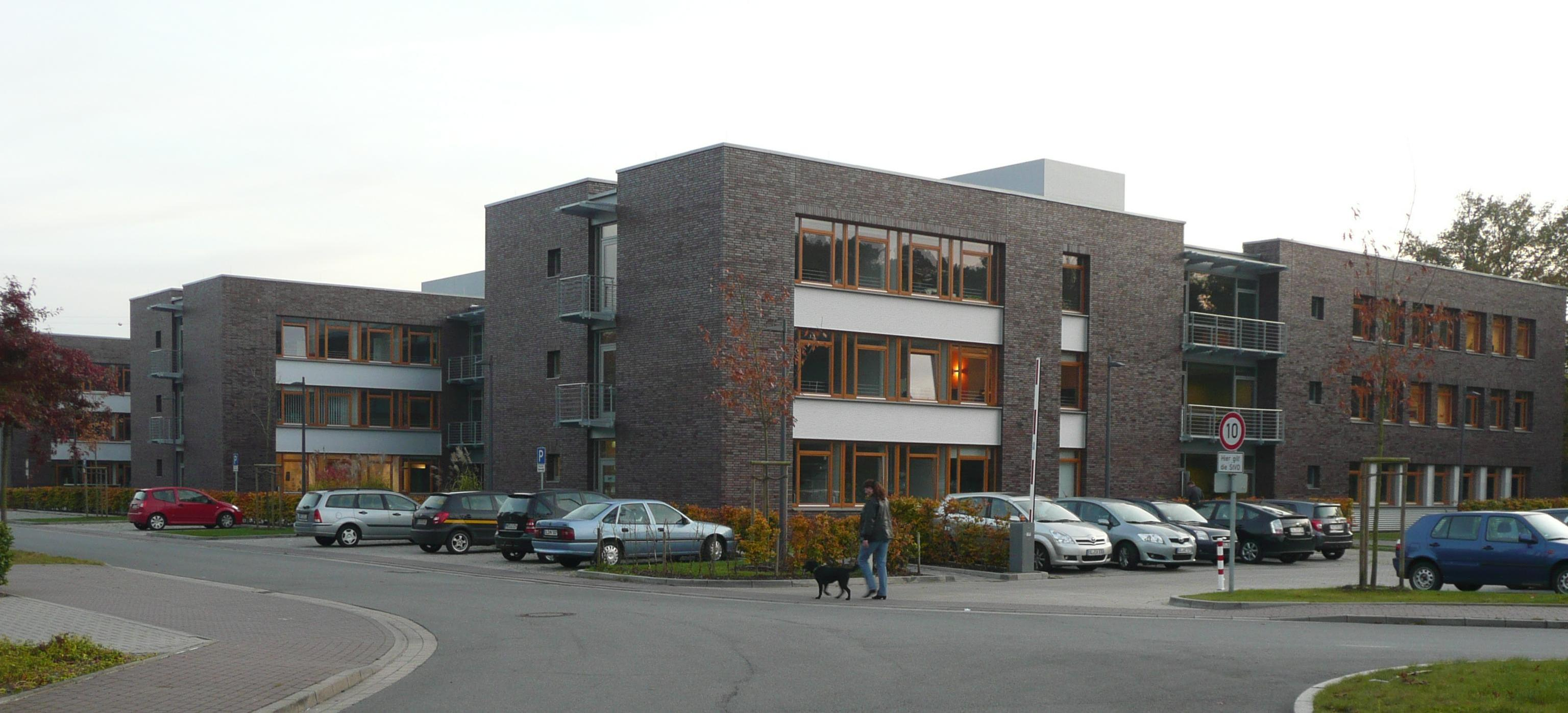 Building of the TGO (New Building, Marie-Curie Street, Oldenburg)